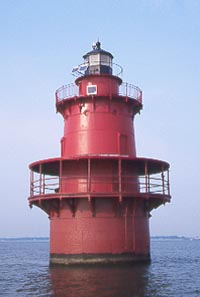 OntheH2Ophotos (talk) 21:04, 23 October 2015 (UTC)Middle Ground Light photo courtesy of Summary 2015 Photograph of the Newport News Middle Ground Light by Mr. Asia L. Stewart of